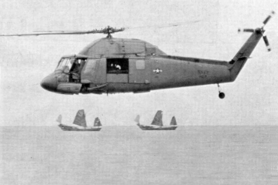 A U.S. Navy Kaman UH-2 Seasprite from Helicopter Combat Support Squadron HC-7 Seadevils in flight over the Gulf of Tonkin, in 1970. HC-7 was deployed to rescue downed aviators during the Vietnam War and was often stationed aboard the radar picket ships operating close to North Vietnam, like in this case the guided missle cruiser USS Horne (DLG-30).